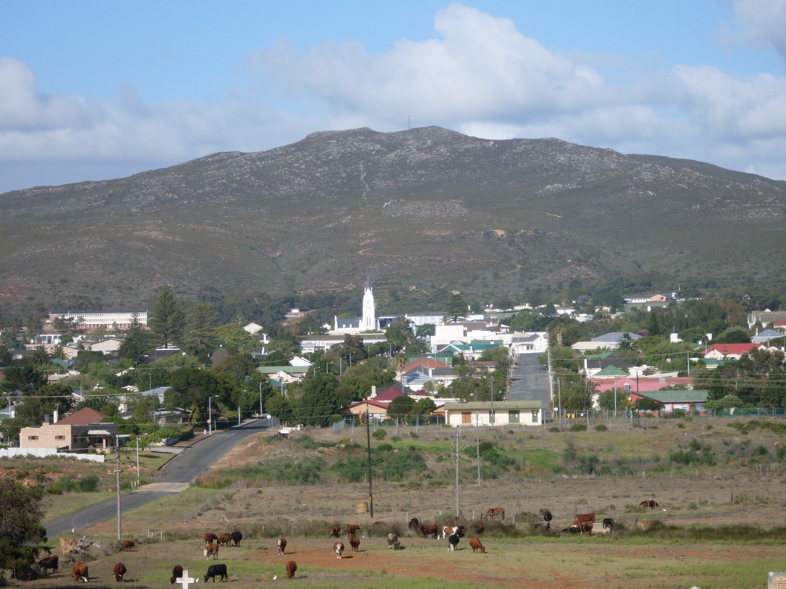 Town center of Bredasdorp, with Heuningberg in the background, photographed from the New Cemetery. Heuningberg is enclosed by the Heuningberg Nature Reserve.